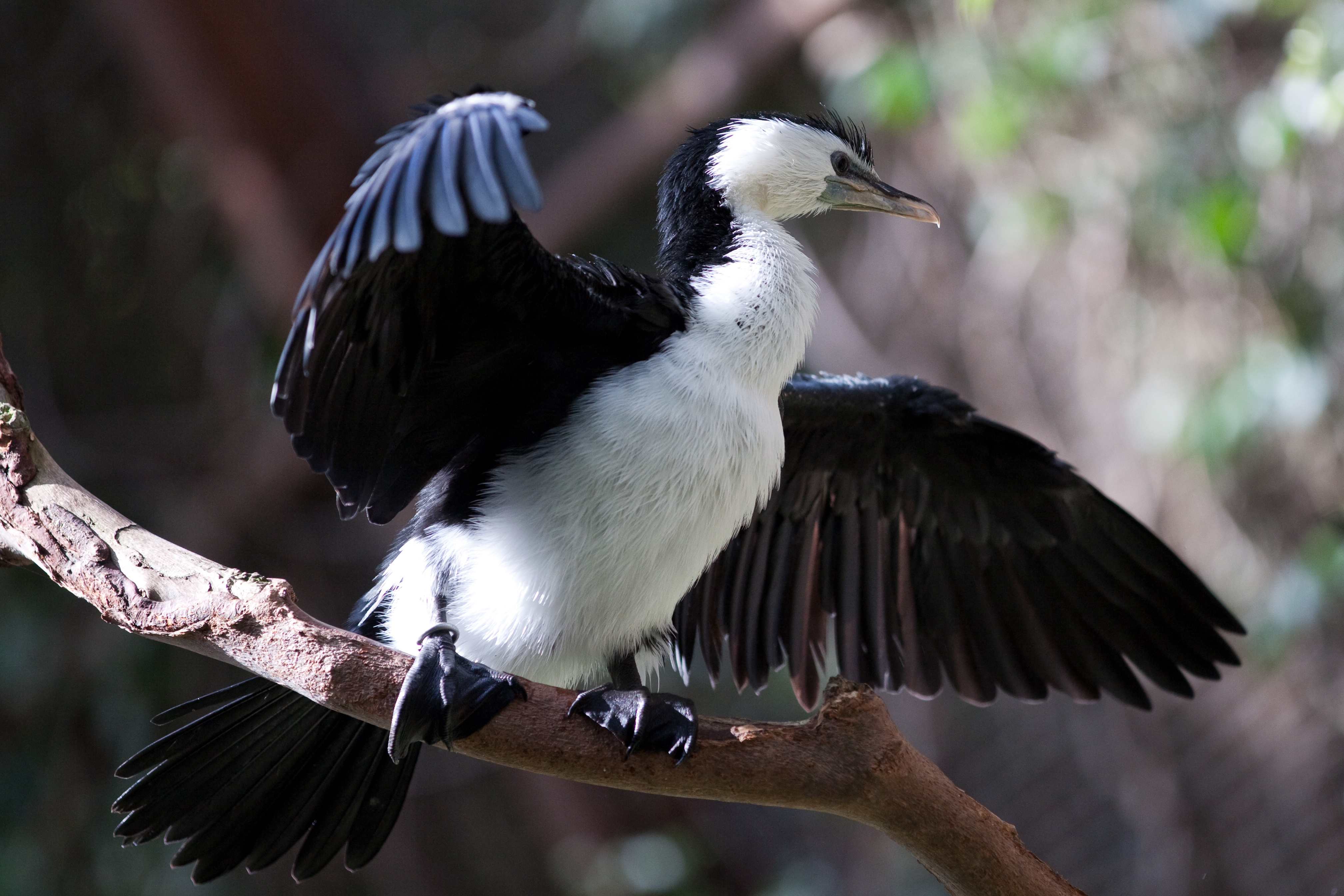 A Little Pied Cormorant at Melbourne Zoo, Australia.